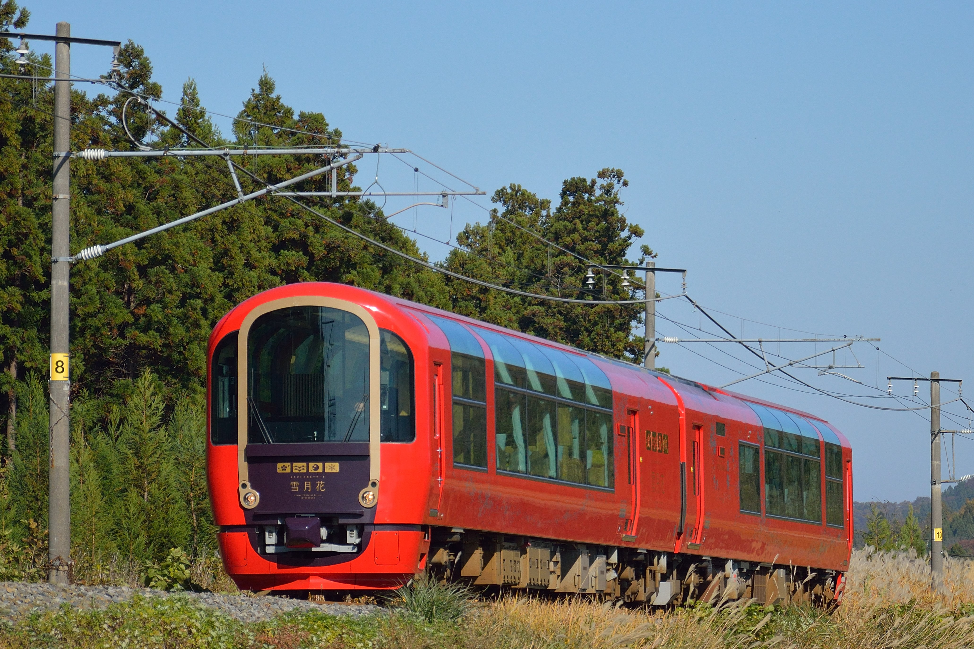 The Echigo Tokimeki Railway ET122-1000 DMU resort train Setsugekka on the Myoko Haneuma Line